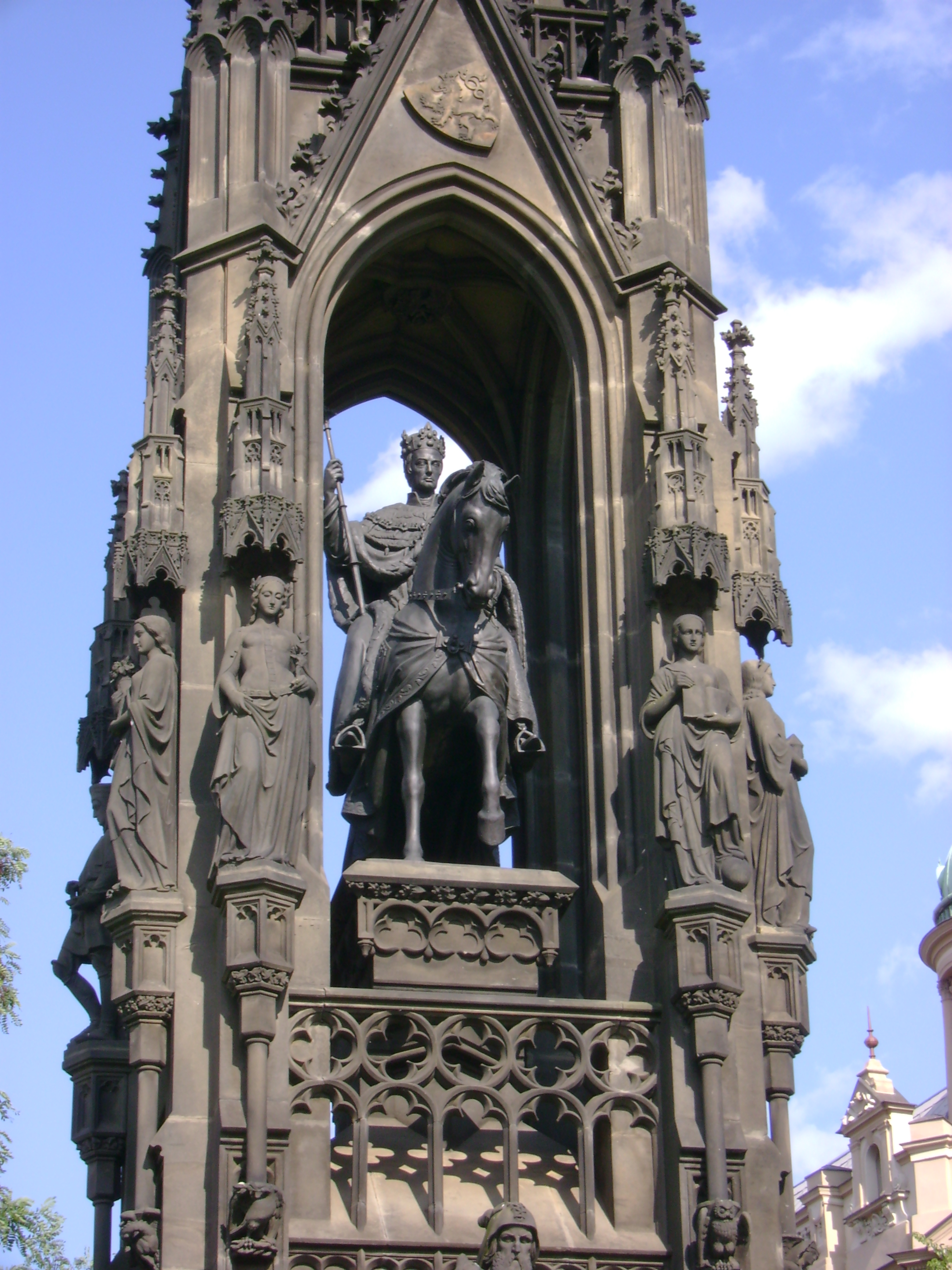 Monument of Francis I, Emperor of Austria, in Prague. Also known as Kranner's fountain. Built 1845-1850. Architect: Josef Ondřej Kranner. Sculptor: Josef Max.